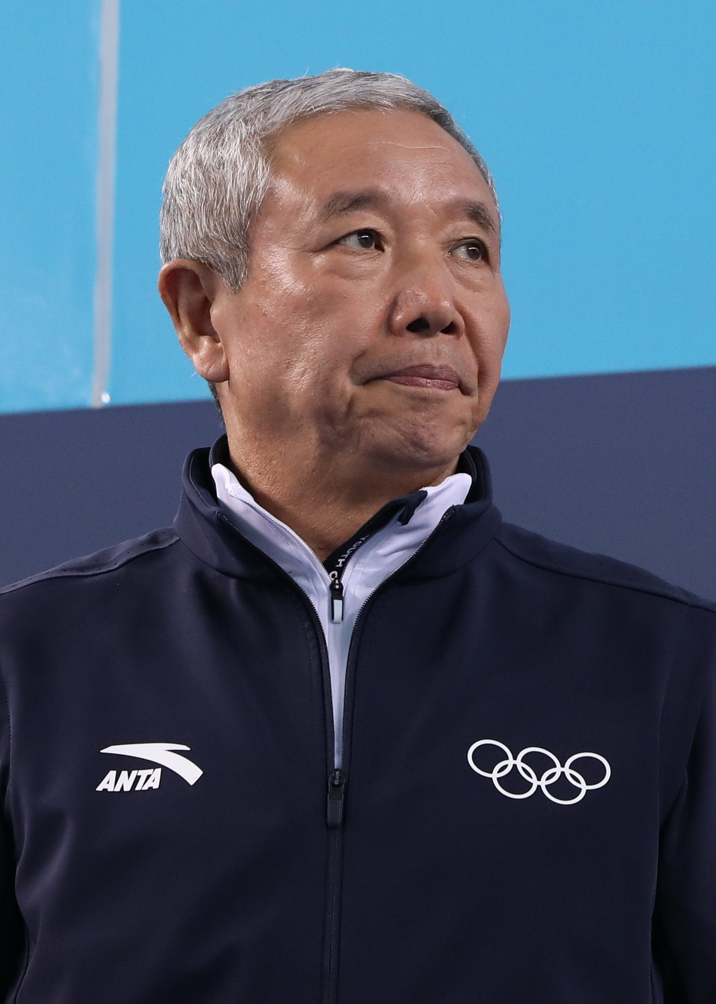 Diving, Girls 3 m springboard: Victory ceremony